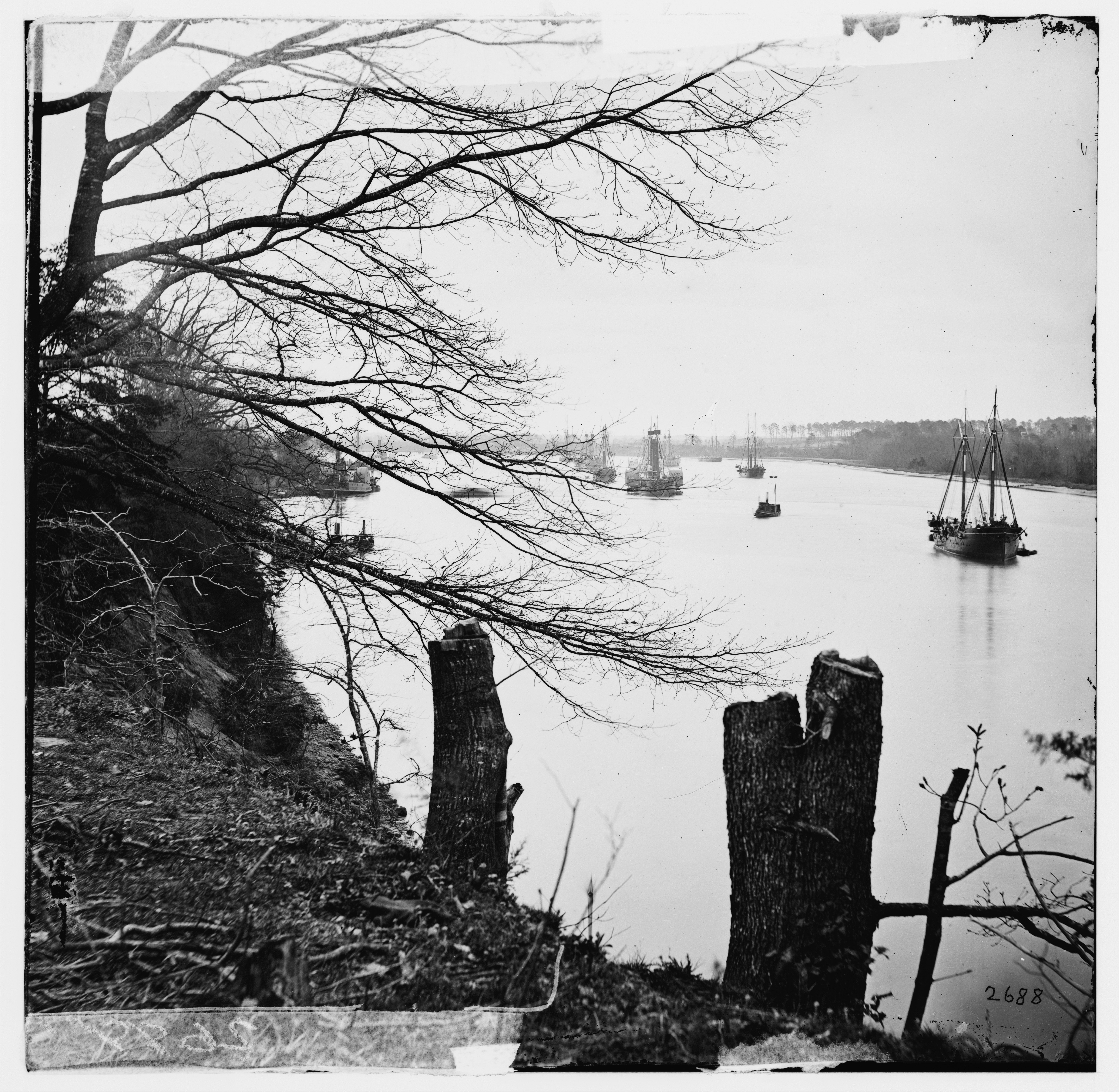 Title: Varina Landing, Virginia (vicinity). View of ships on James River. (Near here Gen. Ord's 18th Army Corps crossed the James) Physical description: 1 negative (2 plates)